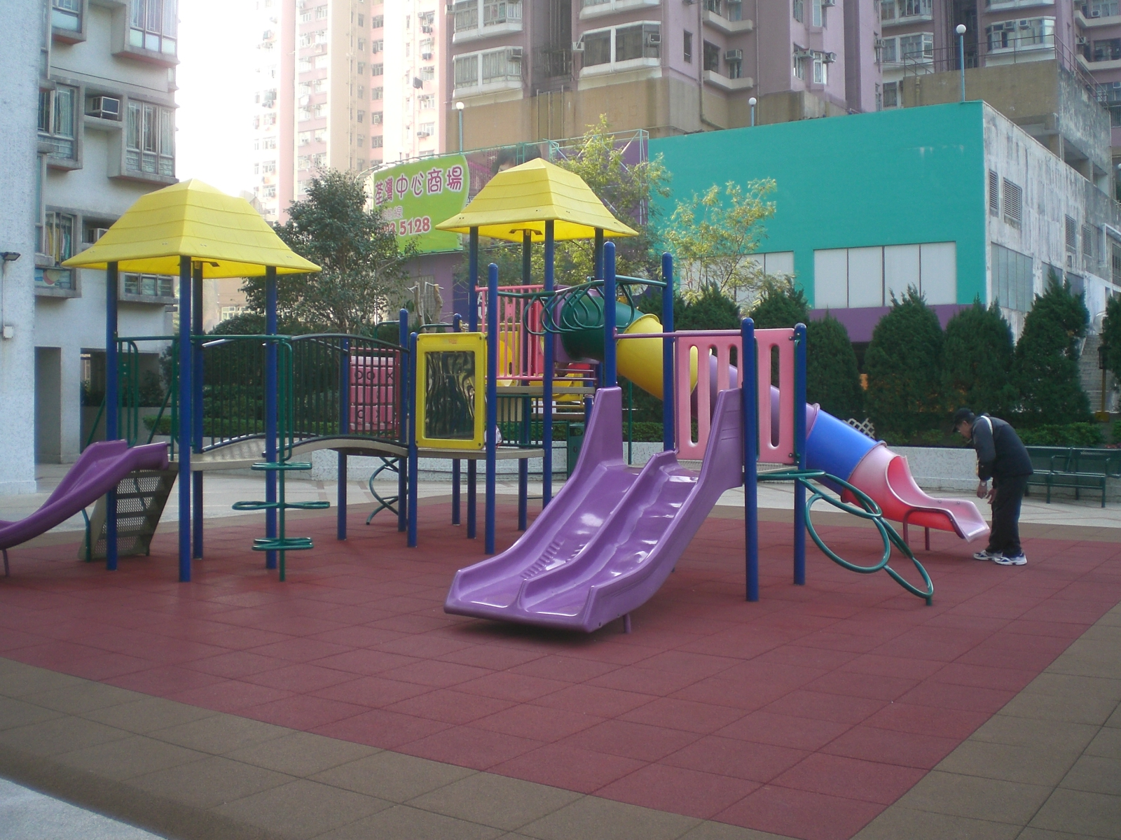 荃灣zh:荃景圍 荃景花園平台公園